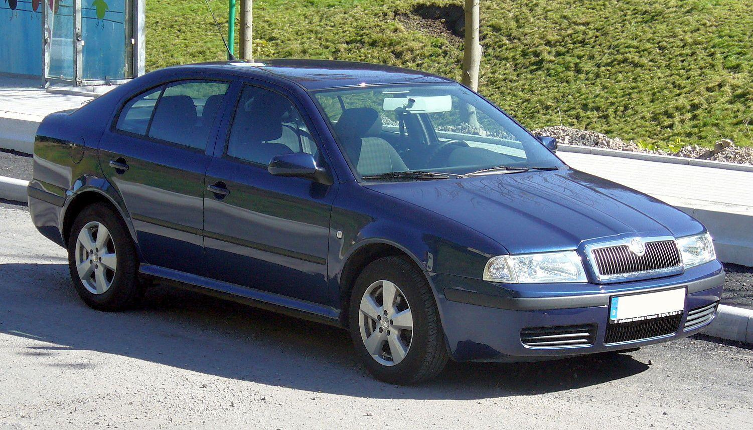 Skoda Octavia Tour (1U Facelift)